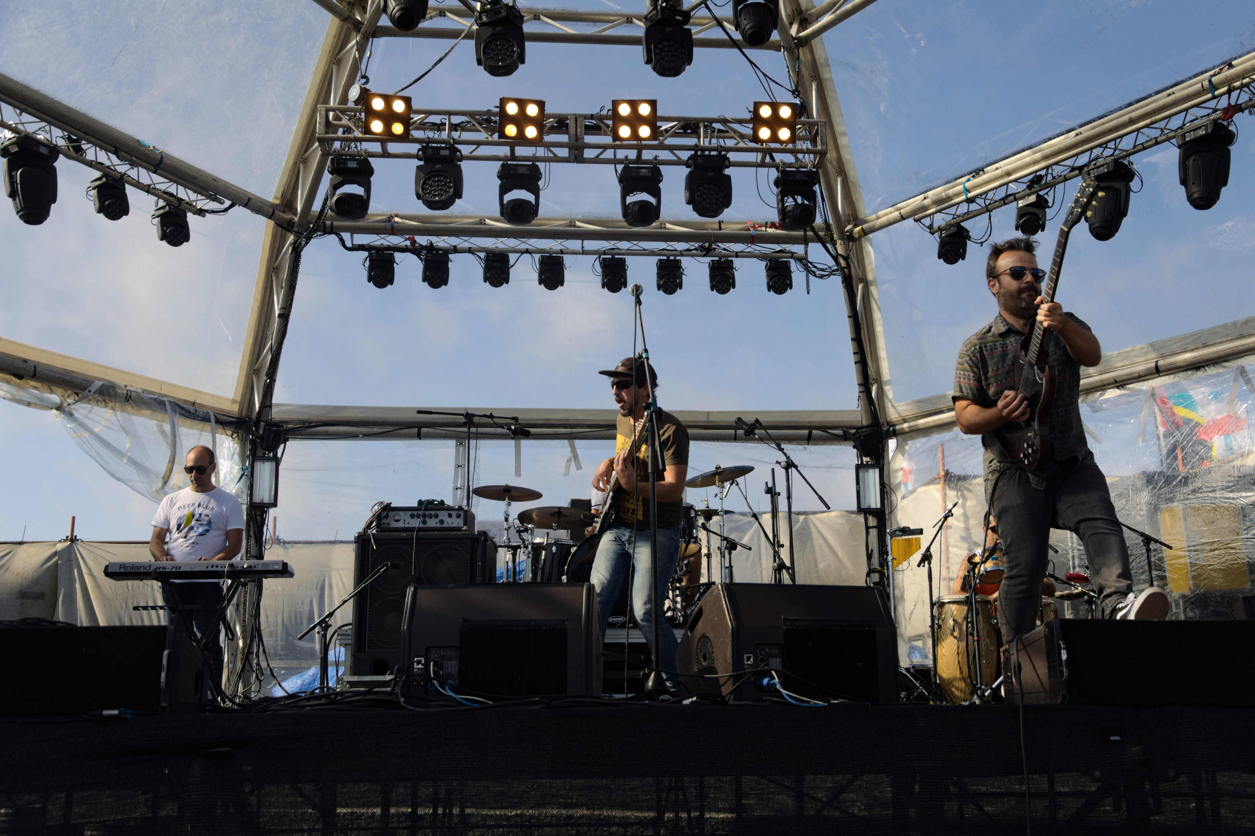 Cumbia Ebria at the Festival de Música Sonidos Líquidos of 2017 in La Geria, Lanzarote.